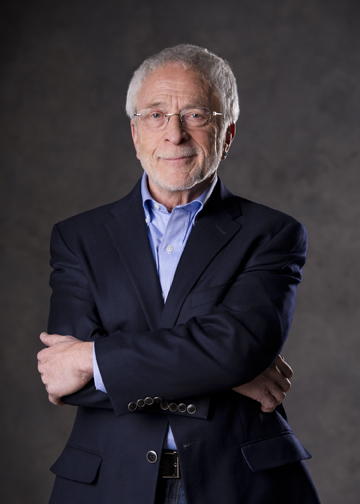 Head shot